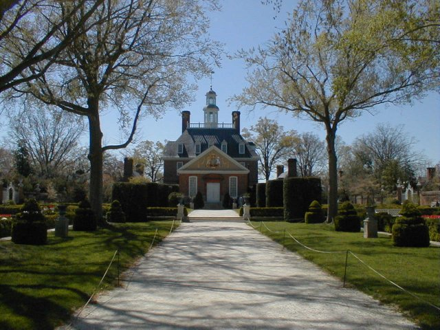 Williamsburg's Governors Palace